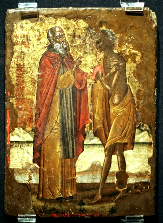 Abbas Zosimas and Mary of Egypt. 17 c. A.S. Onassis Foundation